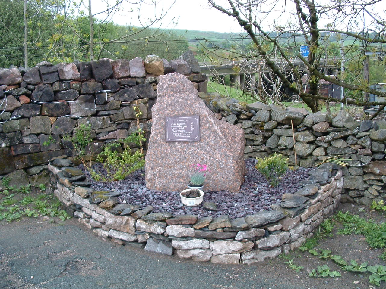 Tebay Monument